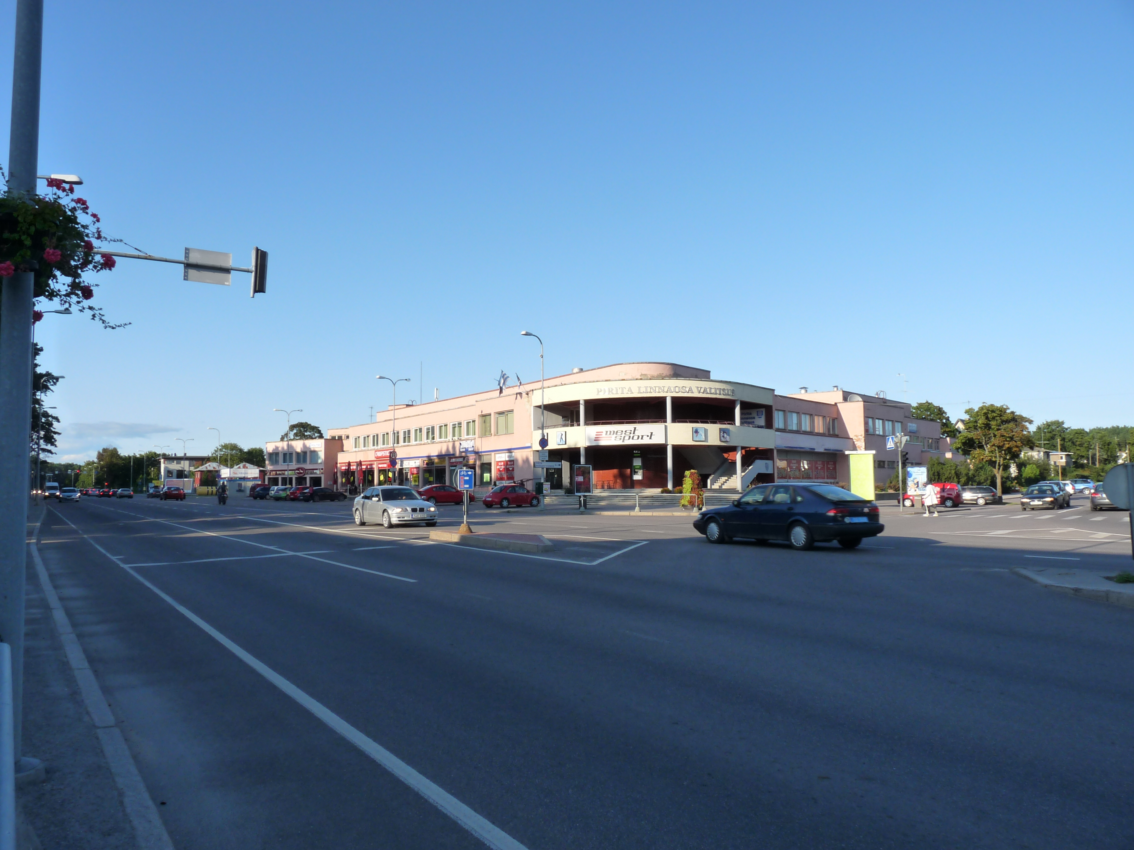 Administrative office of Pirita district